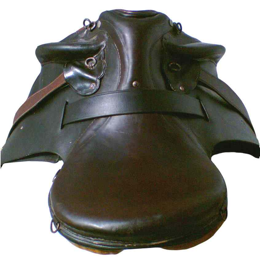 Top view of Australian semi-stock saddle showing slimline poleys